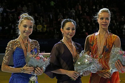 The Ladies podium at the 2015 European Championships. From left to right: Elena Radionova (2nd), Elizaveta Tuktamysheva (1st), Anna Pogorilaya (3rd).